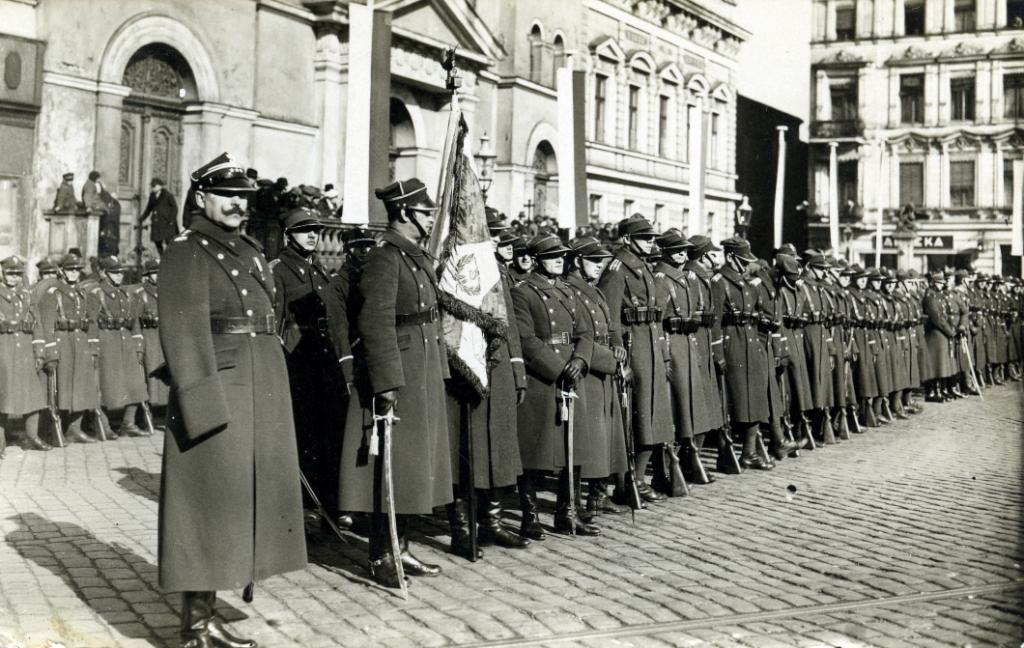 Officer Cadet School for Non-commissioned Officers in Bydgoszcz; report to the Commander of the Garrison